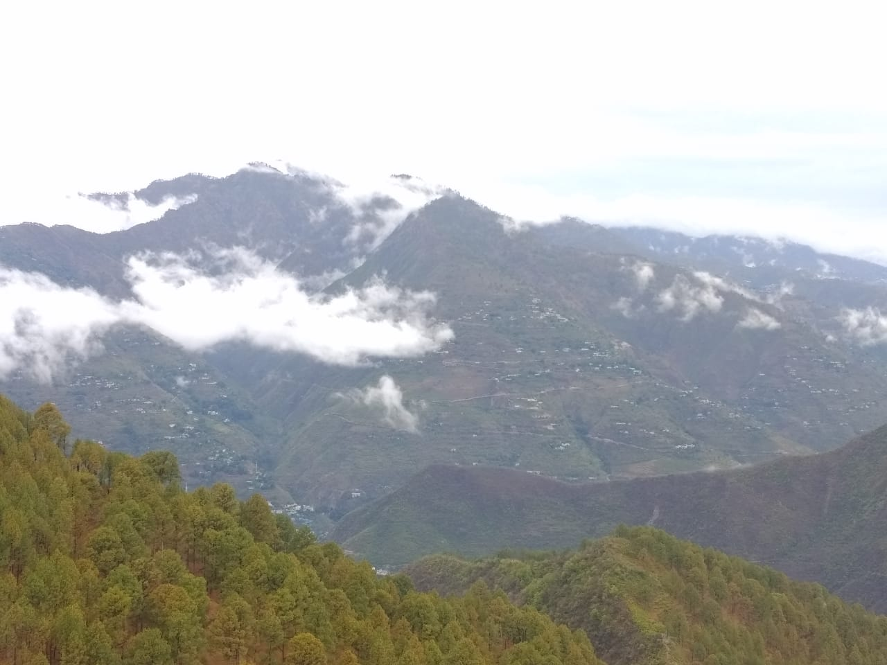 Lee Village